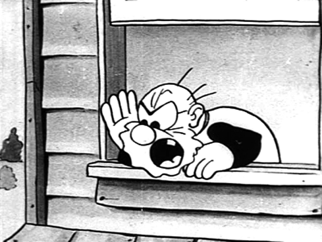 Frame of the cartoon character Farmer Al Falfa from the 1931 animated film The Iron Man. Renewal searches were done in both film and artwork for the years 1958 and 1959 There were no listings for this title or for Van Beuren Studios. There's no evidence that copyright continues on the film or the artwork connected with it.